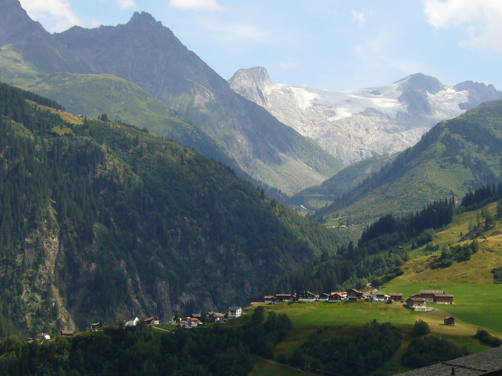 Piz Medel (in the middle) in the canton of Graubünden, Switzerland. Picture taken by Peter Berger, July 30, 2006.